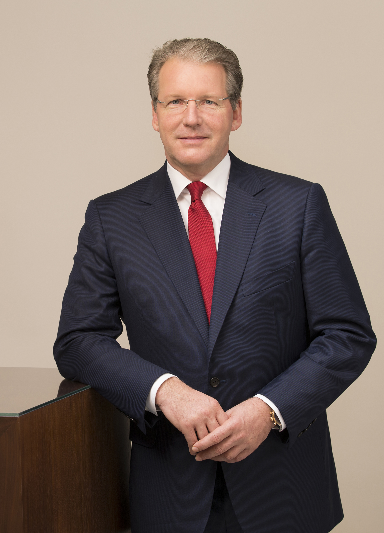 Chief Executive Officer Schaeffler AG